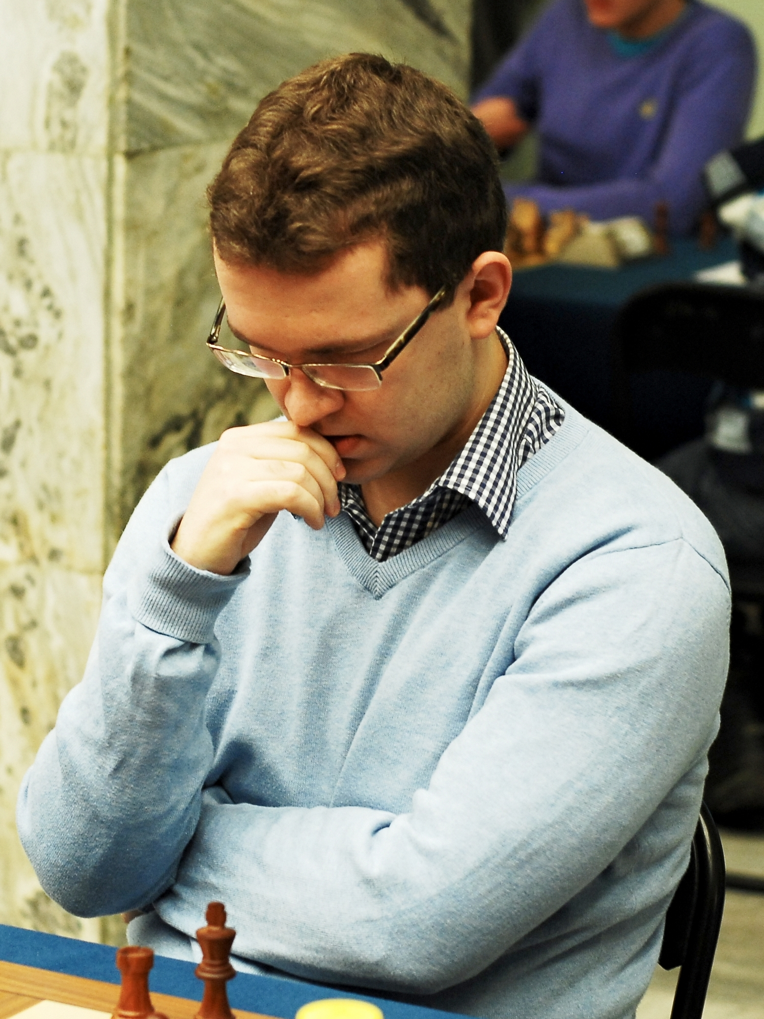 GM Wojciech Moranda, European Rapid Chess Championship, Warsaw 2012.